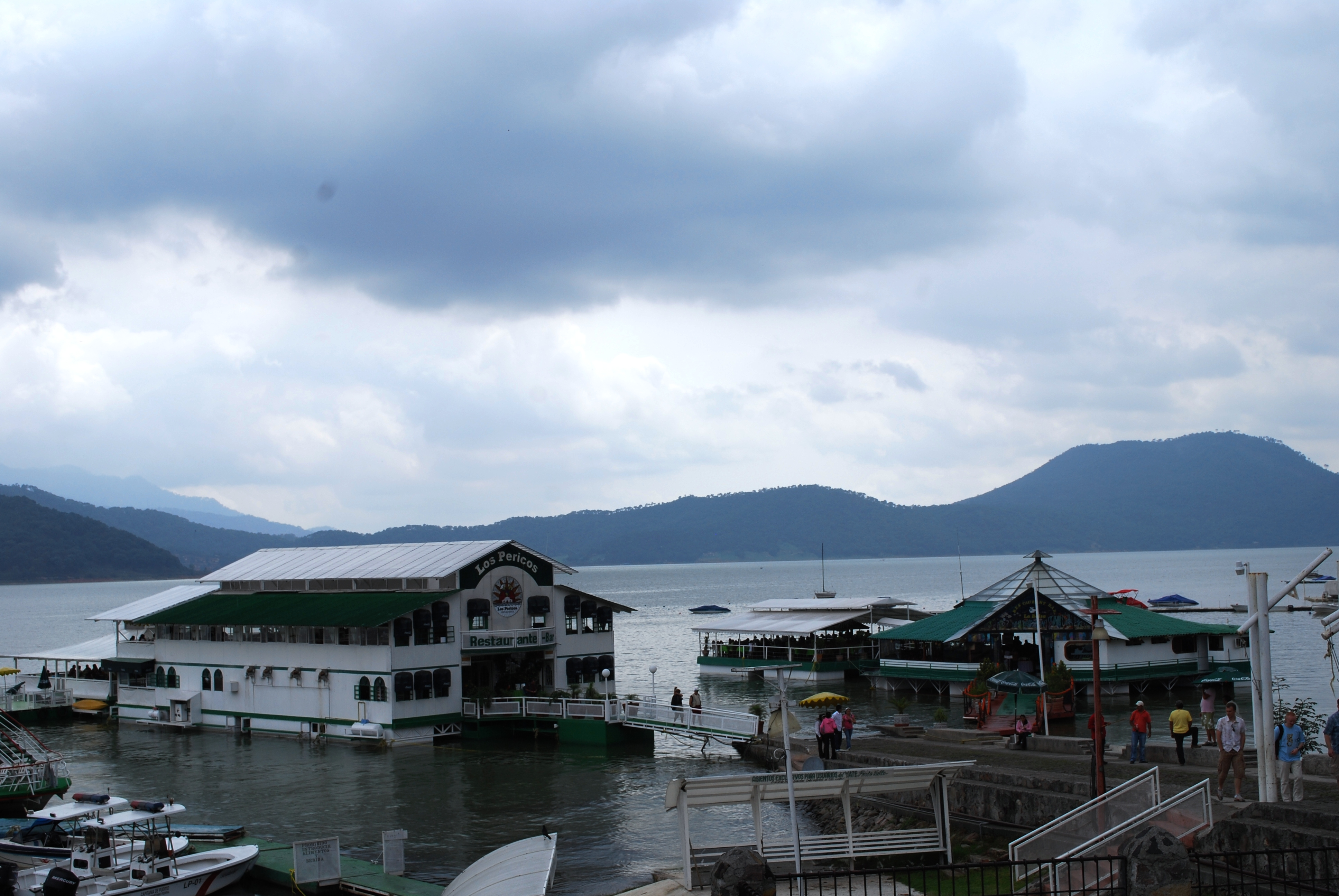 Floating restaurants off the main docks of Valle de Bravo